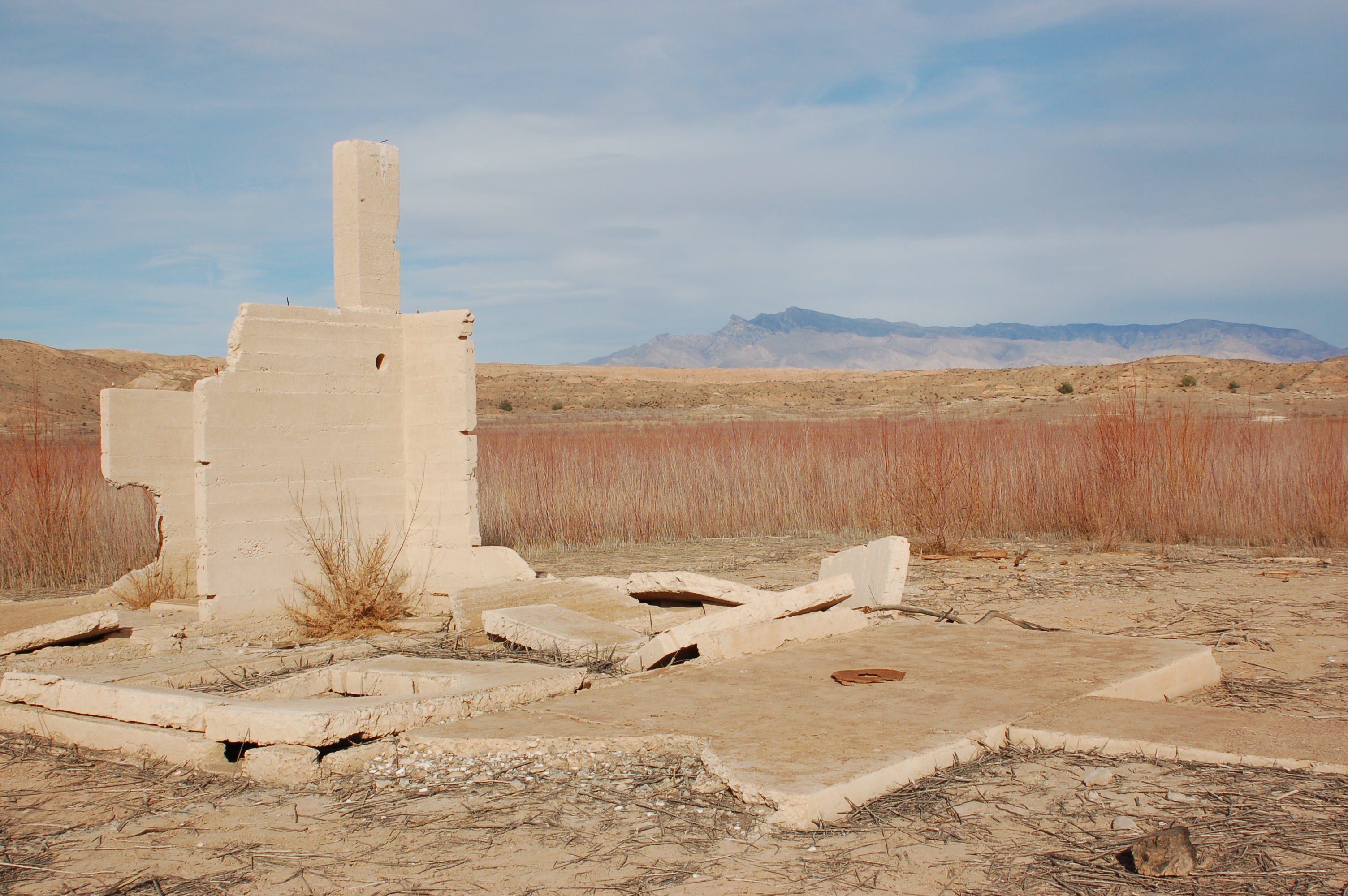 These ruins at St. Thomas, Nevada, were once submerged under Lake Mead